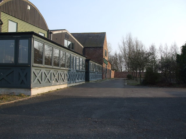 Former Arts theatre, Bubwith, East Riding of Yorkshire, England.